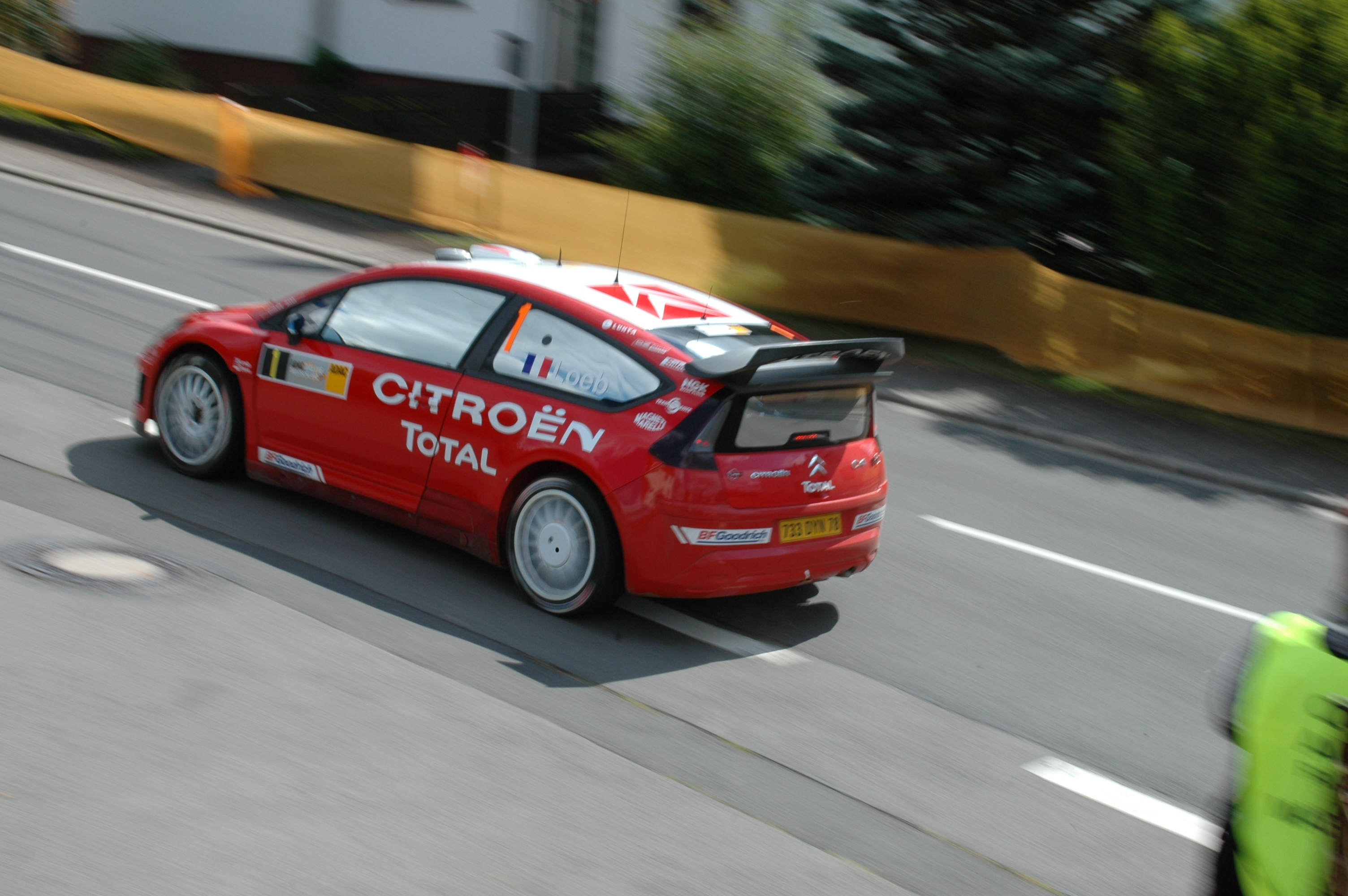 Sébastien Loeb driving his Citroën C4 WRC at the 2007 Rallye Deutschland.